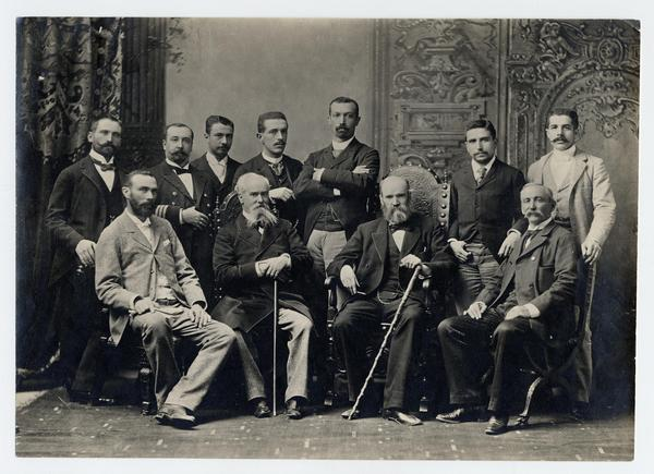 Comision de la Patagonia